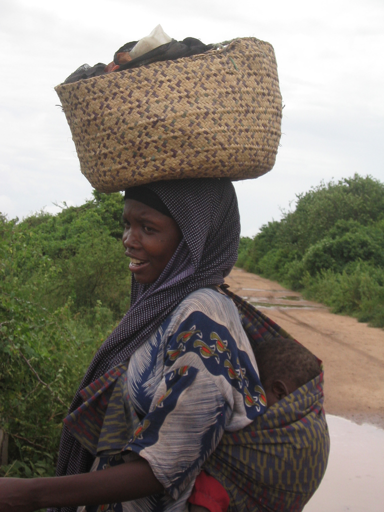 Bantu woman near Jamaame, southern Somalia